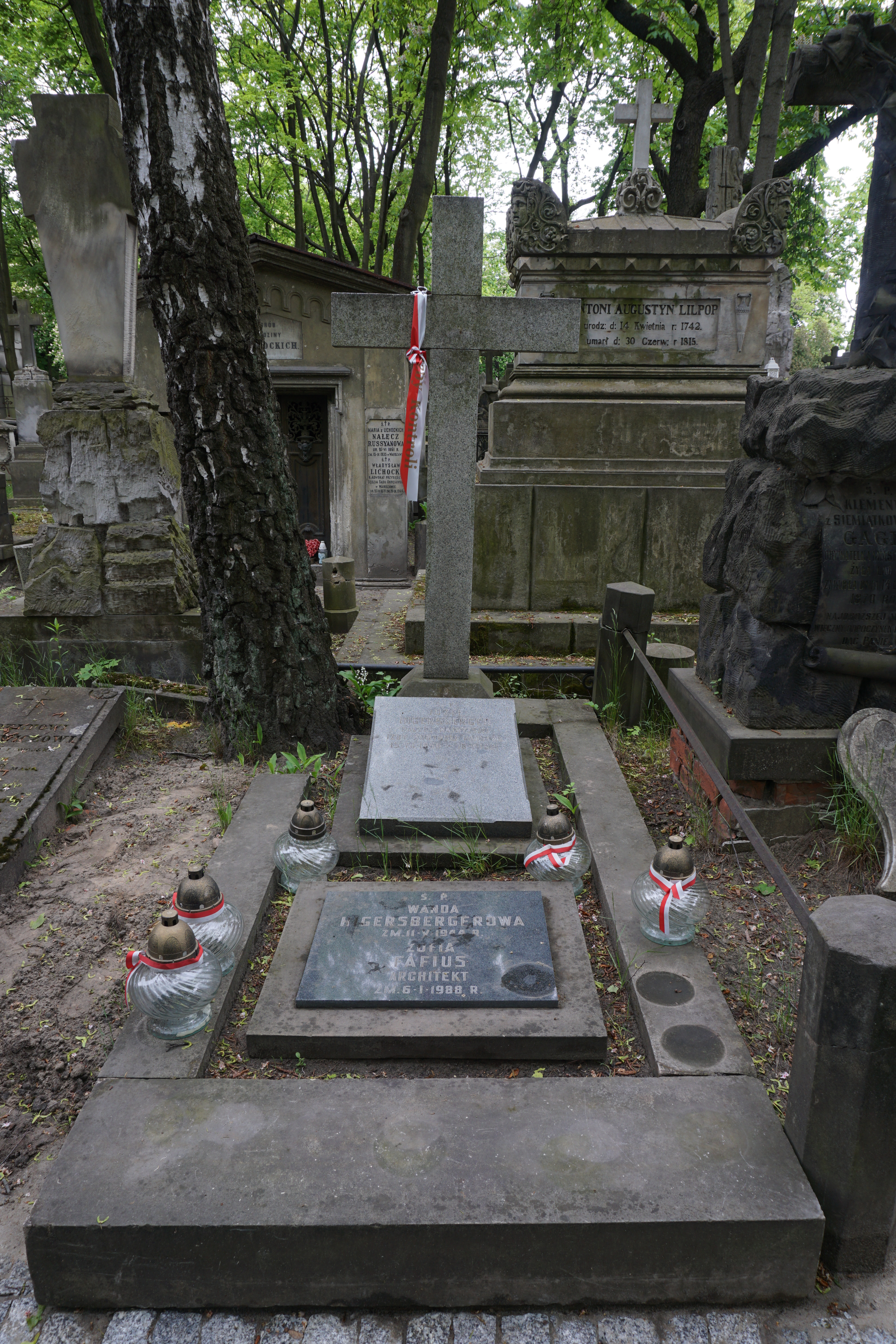 The grave of Józef Higersberger at the Powązki Cemetery (section 15, row 3, grave 12)